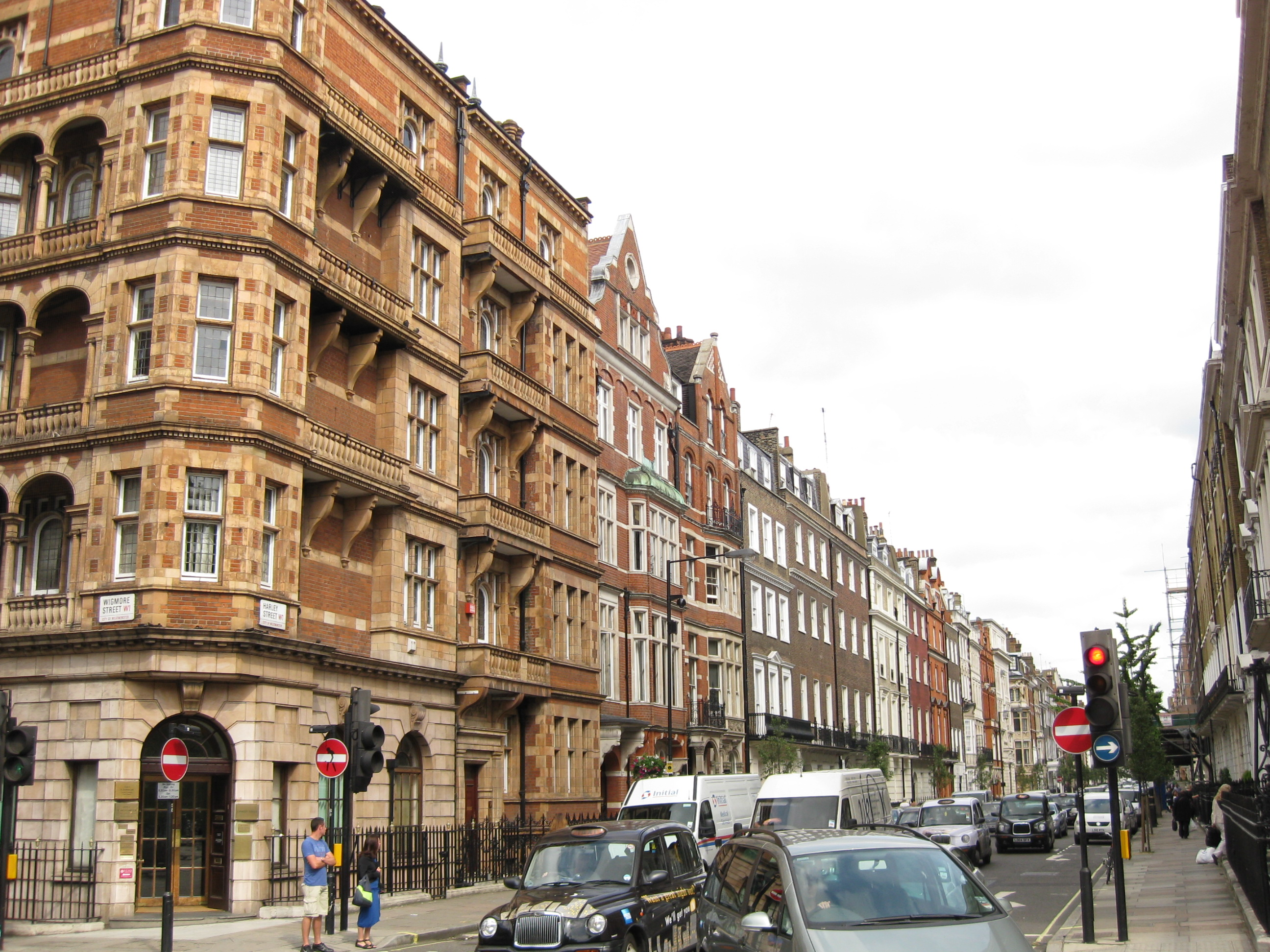 Harley Street, London W1. Junction with Wigmore Street.